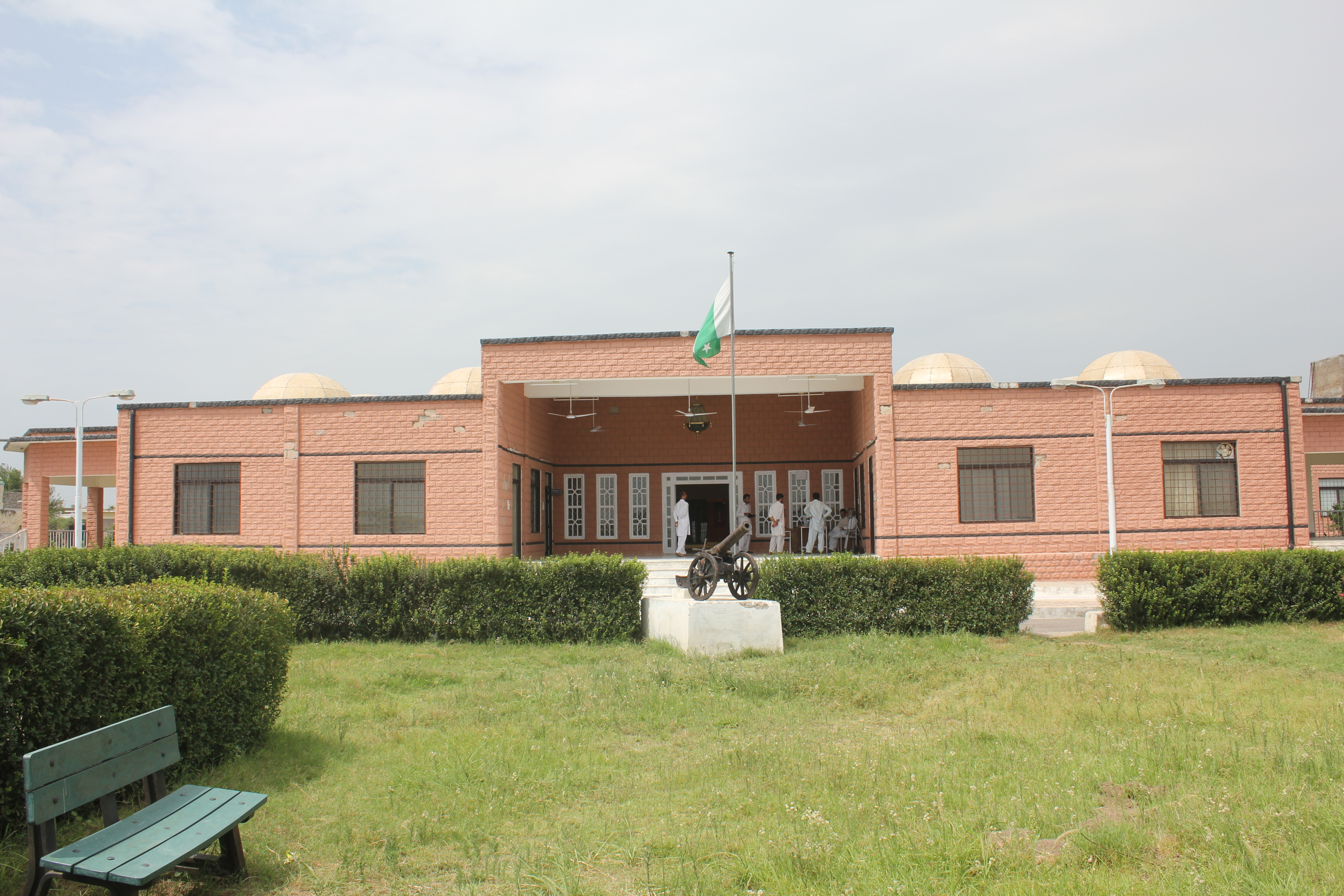 Site Museum at Hund site This is a photo of a monument in Pakistan identified as the KPK-40